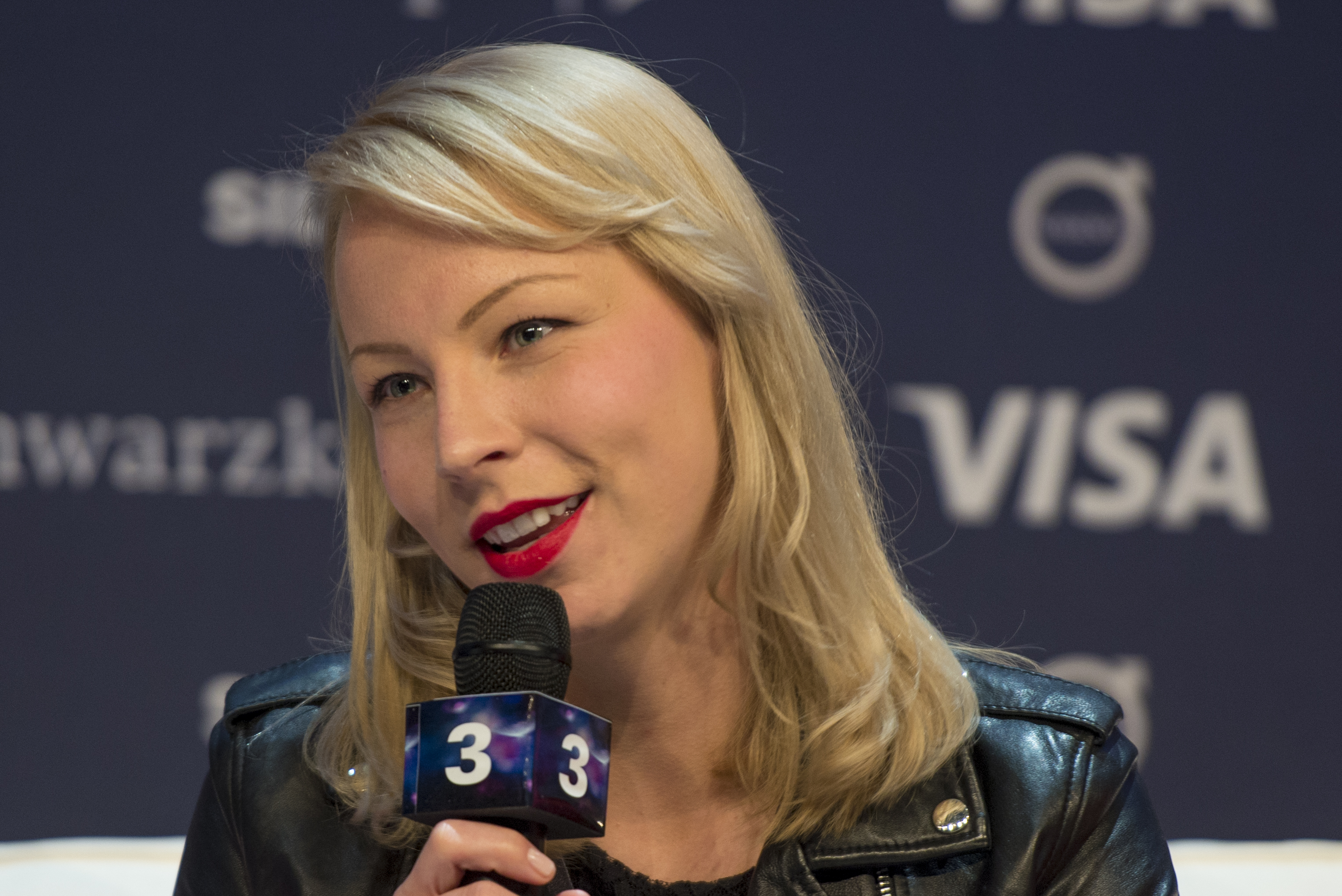 ManuElla at a Meet & Greet during the Eurovision Song Contest 2016 in Stockholm. (Help translate this text)